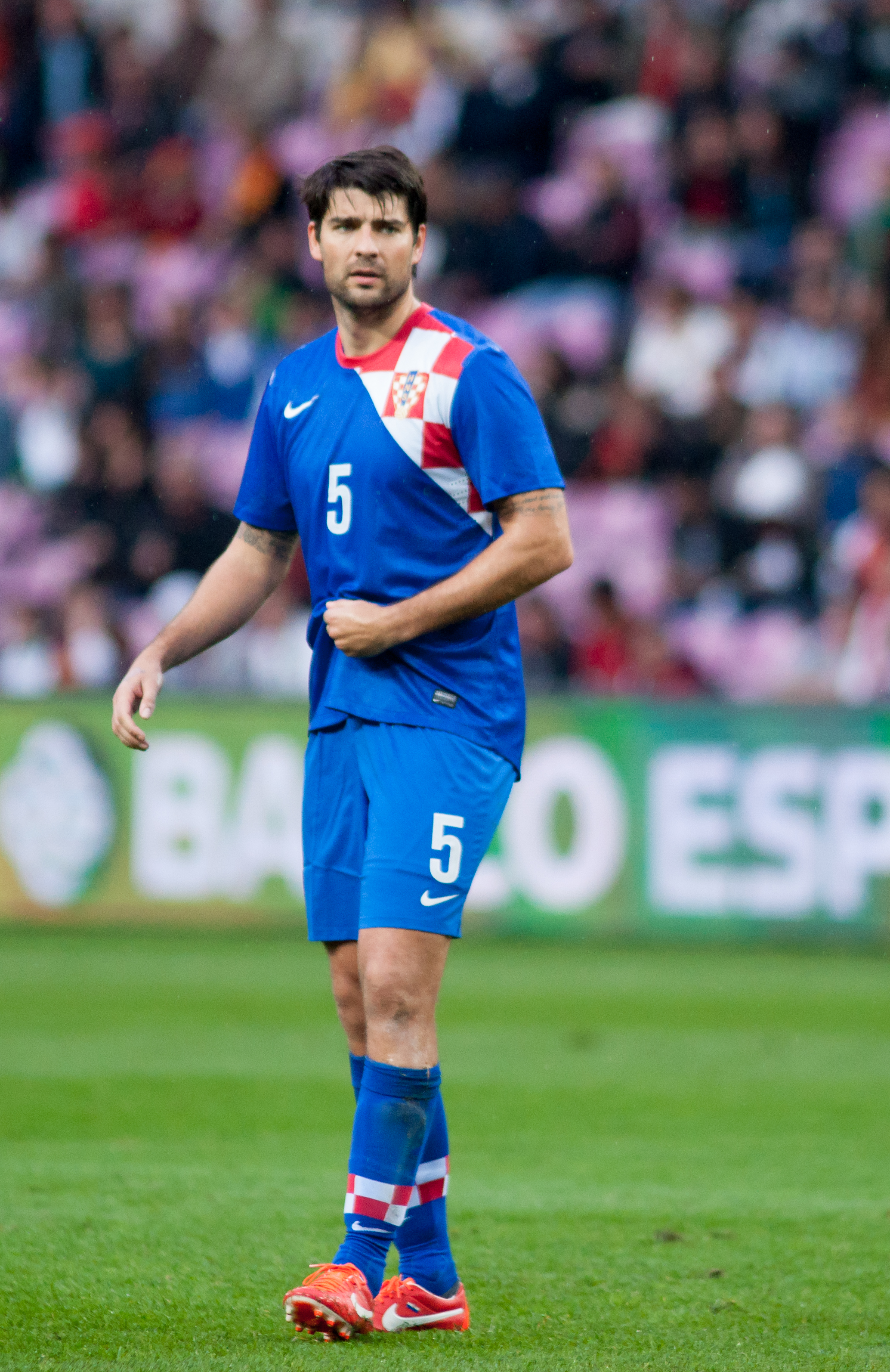 Croatia vs. Portugal, 10th June 2013